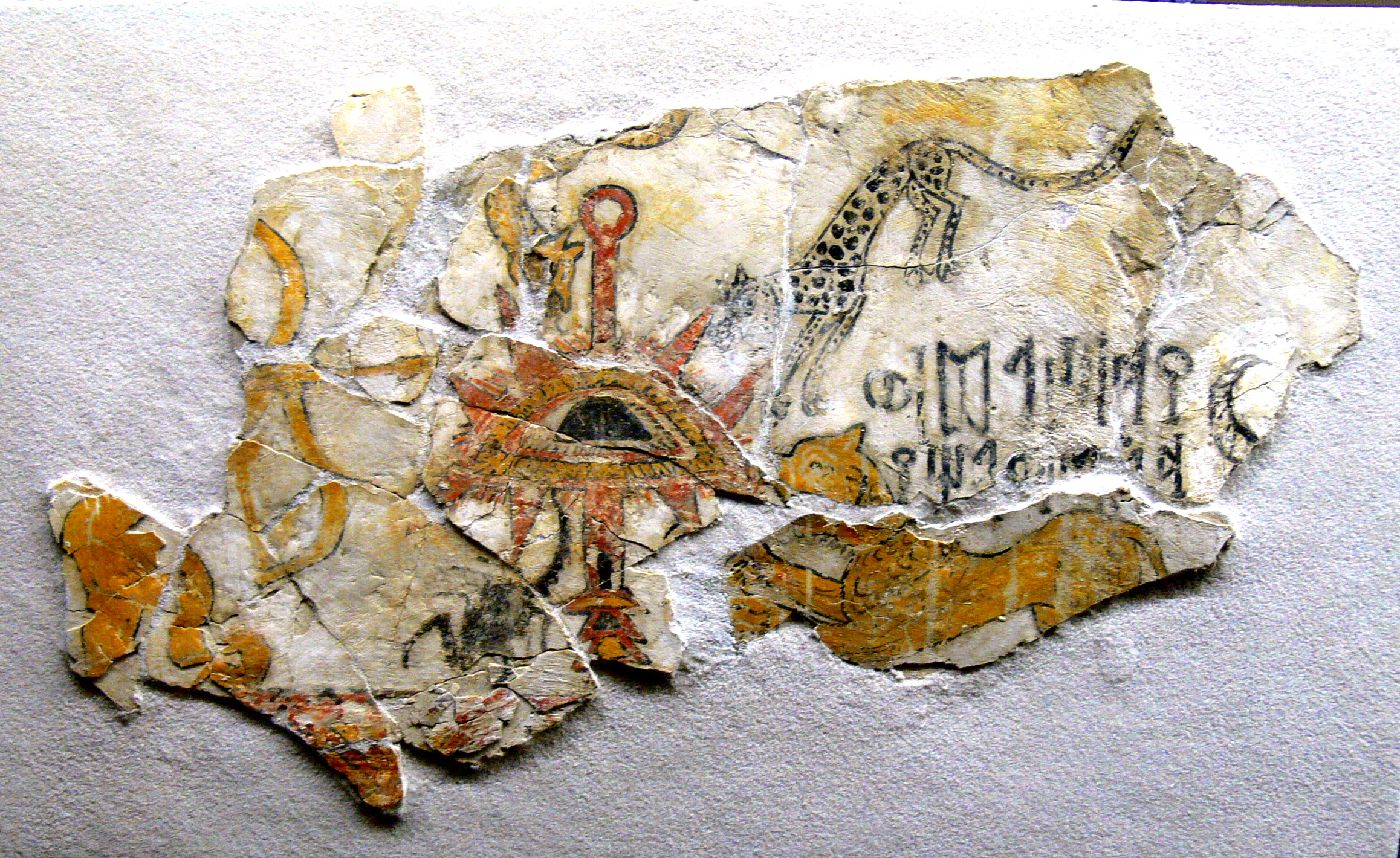 Pergamon Museum ( Berlin ). Exhibition "Roads of Arabia": Fragment of a mural painting with zodiacal motif (?) ( 1st-3rd century AD ), black, red and yellow paint on white plaster, 50x29 cm, from Qaryat al-Faw ( Department of Archaeology Museum, King Saud University, Riyadh ).